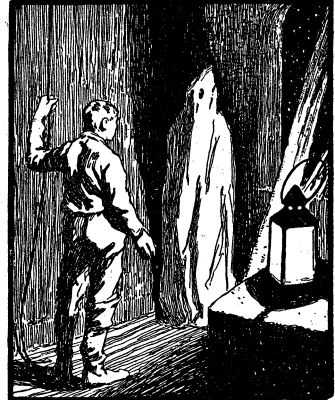 Illustration by Otto Ubbelohde to the fairy tale The Story of the Youth Who Went Forth to Learn What Fear Was